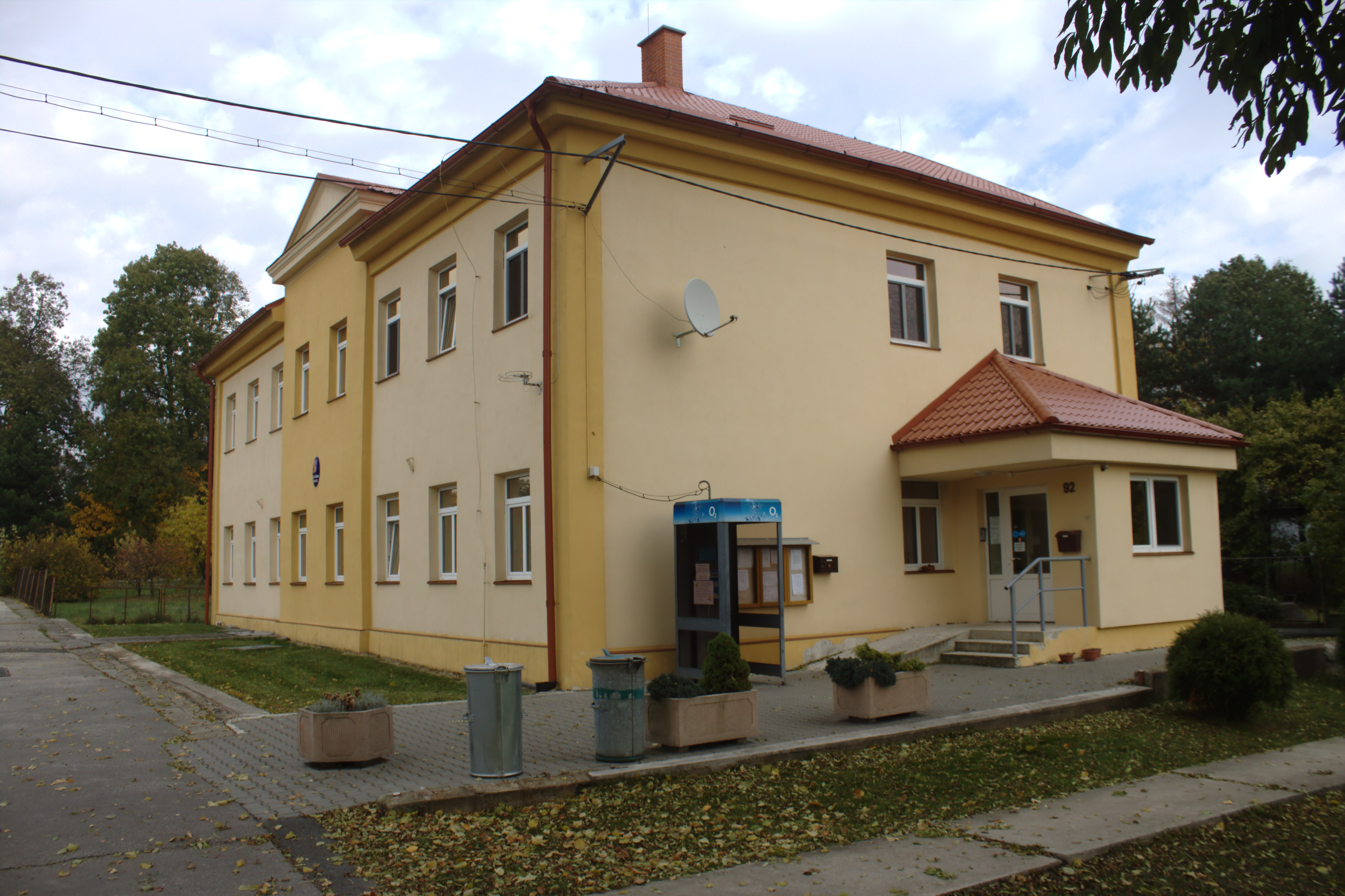 Town hall in Krišťanovice, Moravian-Silesian Region, CZ